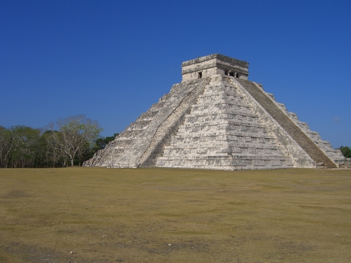 Stepped pyramid "The Castle" at Chich'en Itza, Yucatán